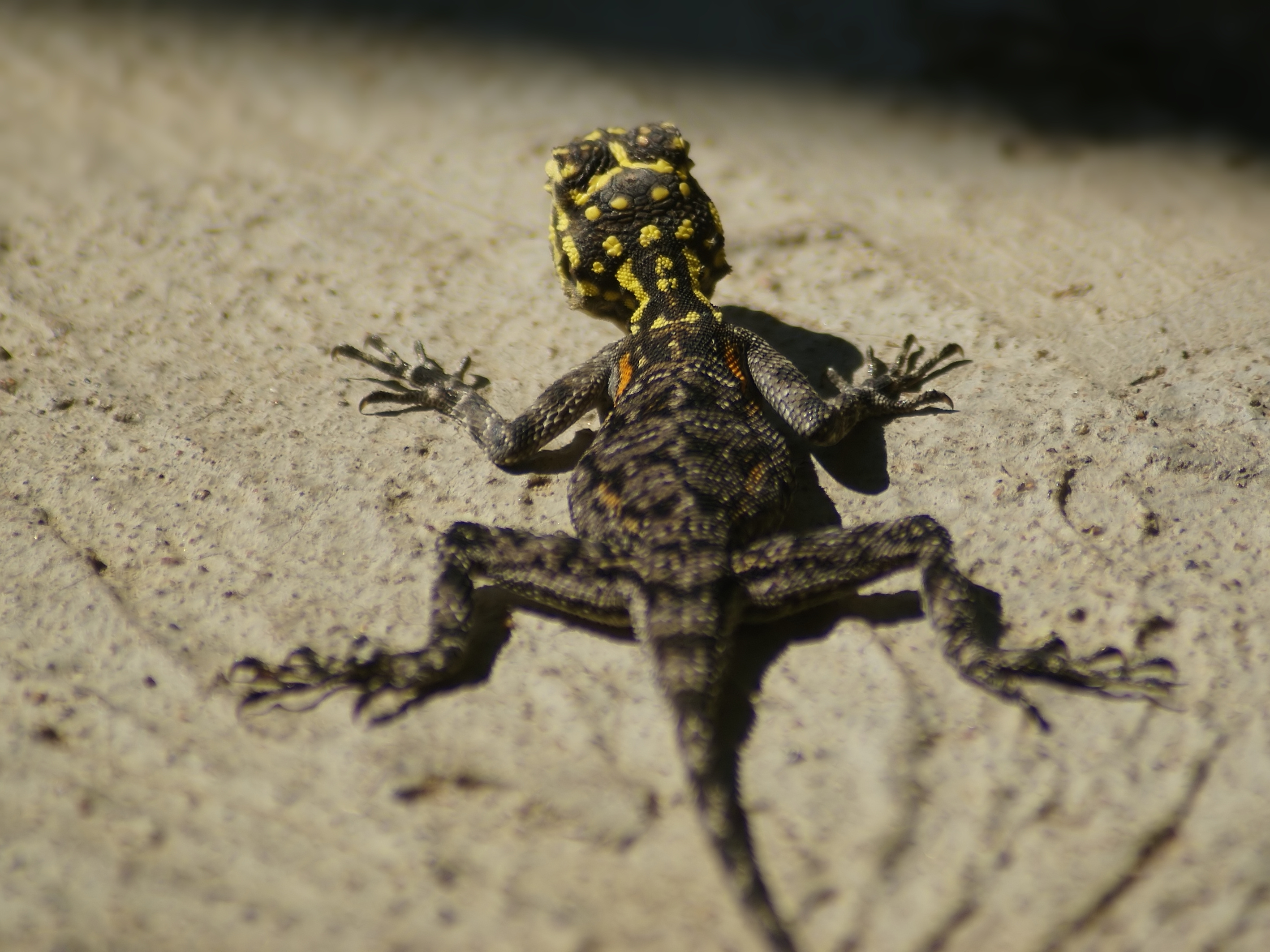 A female Namibian Rock Agama at Kunene River Lodge, north western Namibia